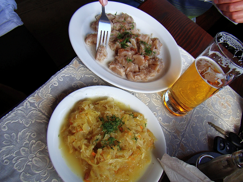 Category:Cuisine of Sanok